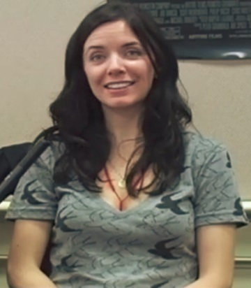 Mark J. Gross interviews Canadian actress Michelle Morgan for Count Gore De Vol